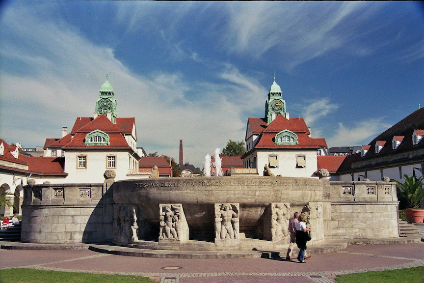 Fountain in the middle of the Sprudelhof (spa) in the spa gardens in Bad Nauheim (Hessen, Germany)